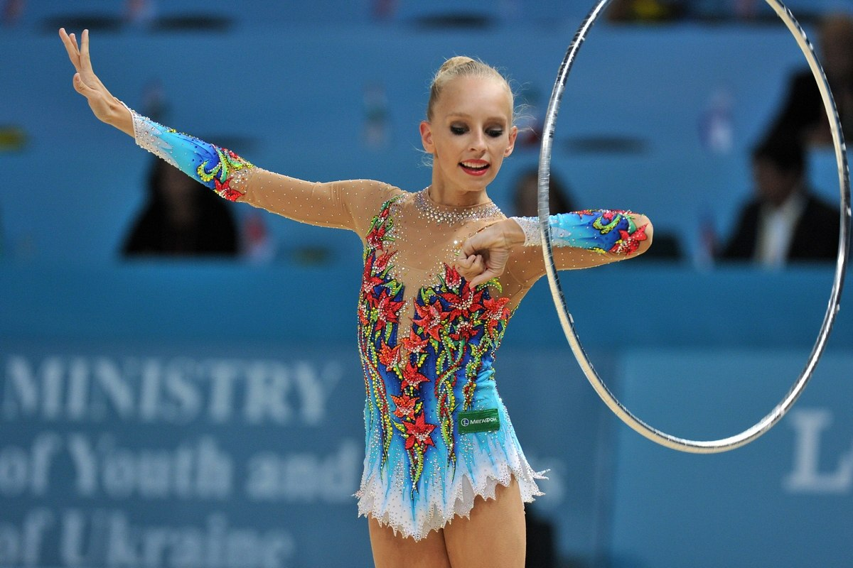 Yana Kudryavtseva competing at the 2013 World Rhythmic Gymnastics Championships in Kiev